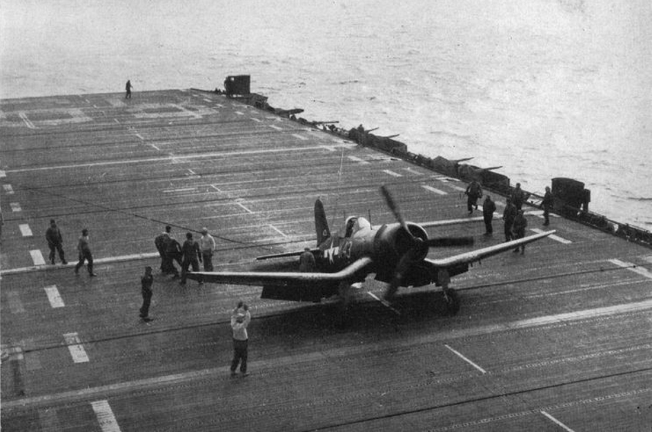 U.S. Navy Chance Vought F4U-1D Corsair making the 5000th landing aboard the escort carrier USS Takanis Bay (CVE-89), circa in 1944. Takanis Bay was commissioned on 15 April 1944. After shakedown, she operated out of San Diego, California (USA), with Fleet Air, West Coast, through the end of hostilities with Japan in mid-August 1945. She tested pilots for carrier operations, and between 24 May 1944 and 28 August 1945, she qualified 2,509 pilots.